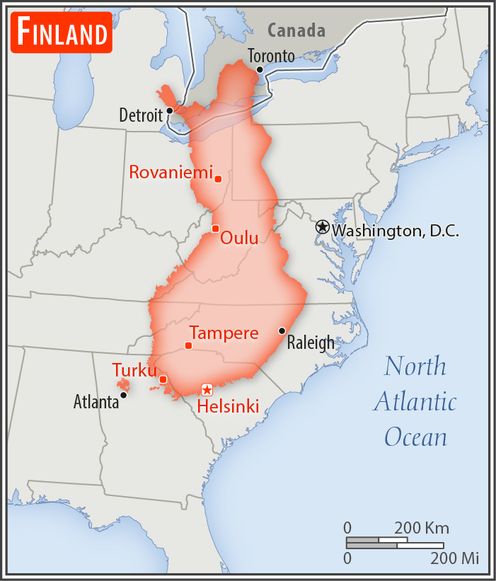 Comparison of the areas of two country. The area of Finland with biggest cities (red) overlay the area of the United States of America (gray background).